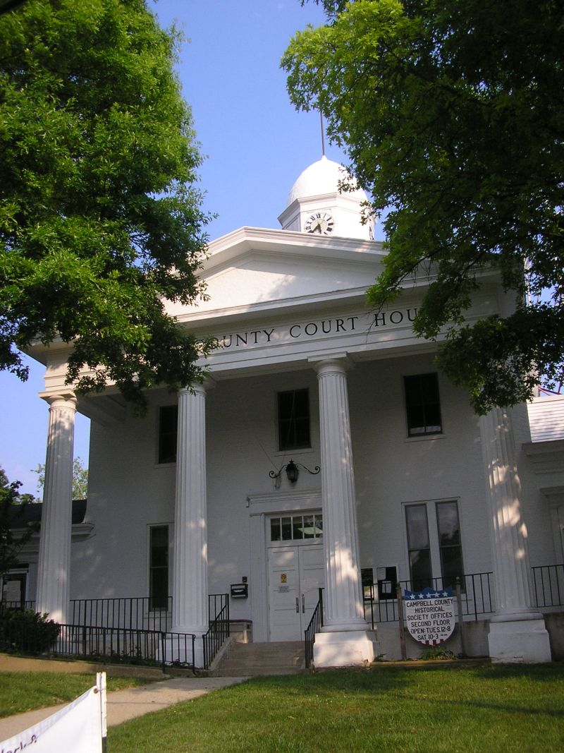 Campbell County Courthouse in Alexandria, Kentucky